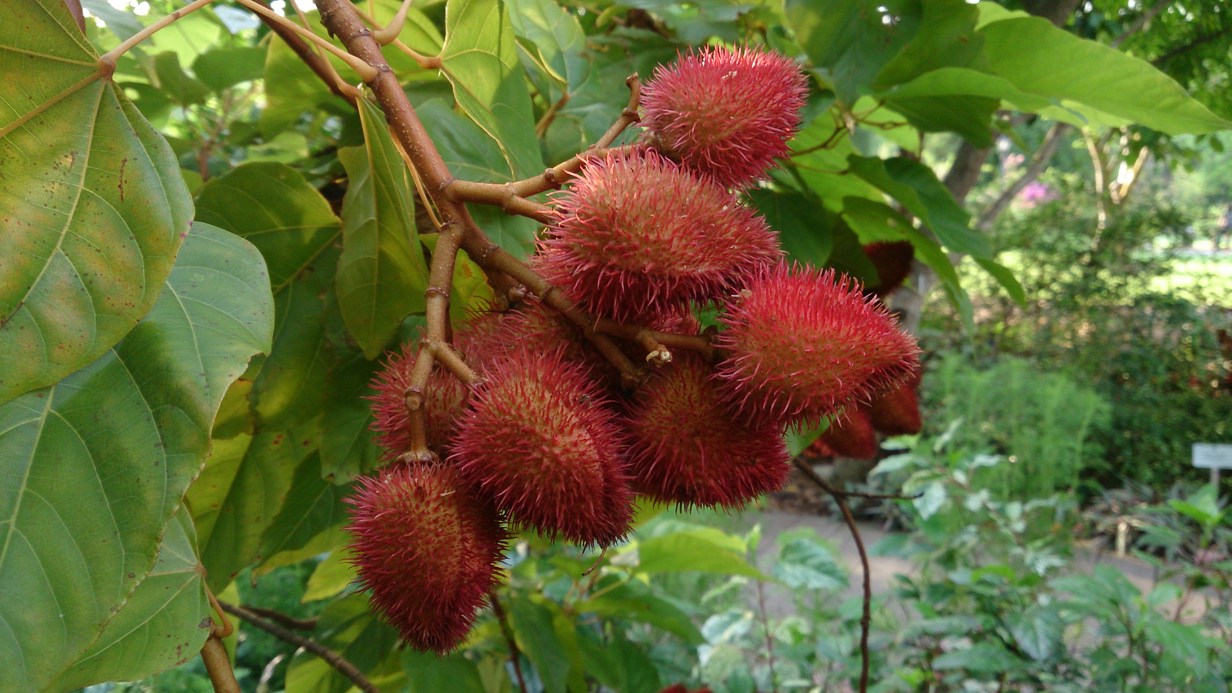 Bixa orellana. Common names: Annatto. Achiote. Kesumba. Lipstick Tree. 胭脂木 (Chinese).